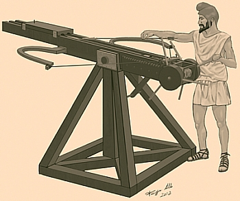 Gastraphetes Biton's (double missile) artistic reconstruction suggested by Schramm's and Marsden's interpretations.